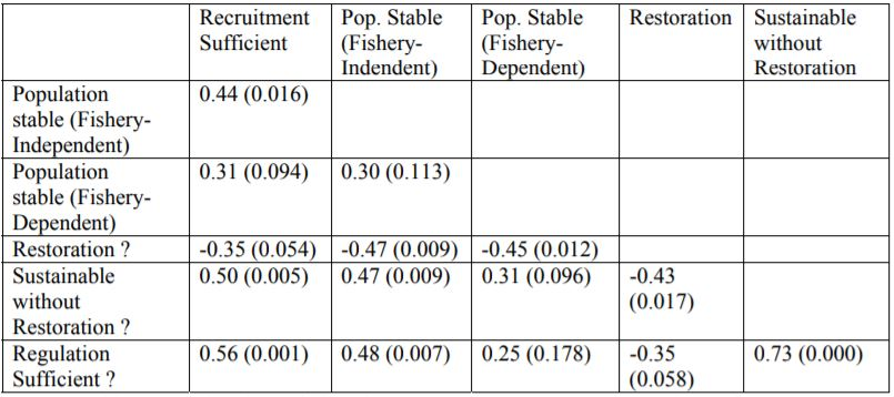 Recruitment of oysters